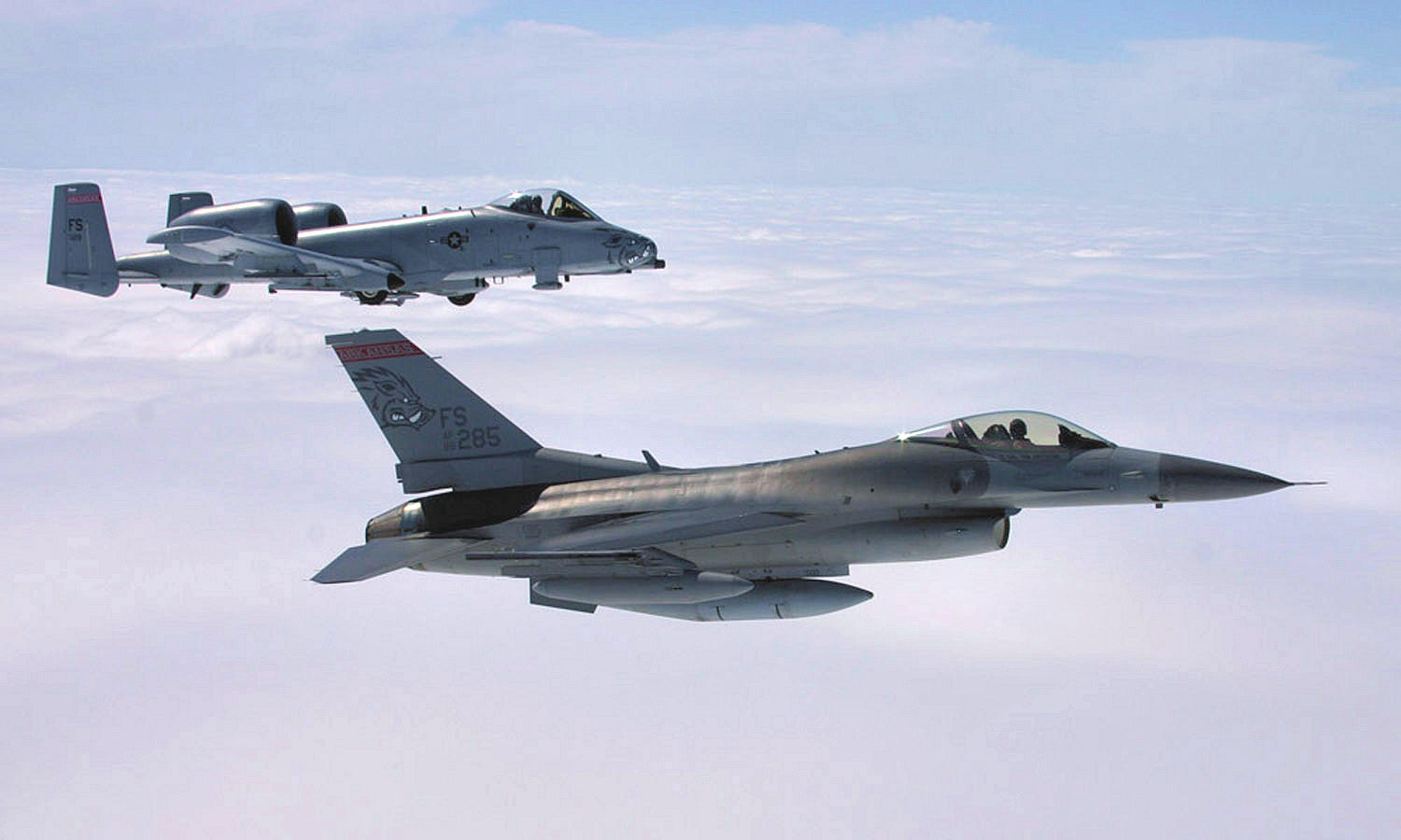 The 188th Fighter Wing in Fort Smith, Ark., welcomed its transition from F-16s to A-10s April 14. Federal, state and local elected officials along joined unit members to say farwell to the F-16 (foreground) and hello to the A-10 (background). Both pictured planes were flying off the wing of a 189th Airlift Wing C-130 before they returned to their base for an aerial demonstration. F-16 84-1285 (U.S. Air Force photo by Master Sgt. Bob Oldham)